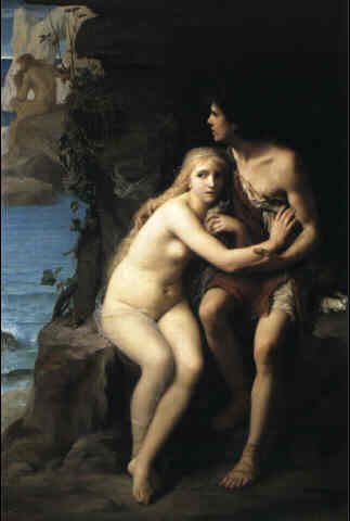 "Acis et Galatée se cachant de Polyphème" ("Acis and Galatea hiding from Polyphemus") by French painter and illustrator Édouard Zier (1856-1924)